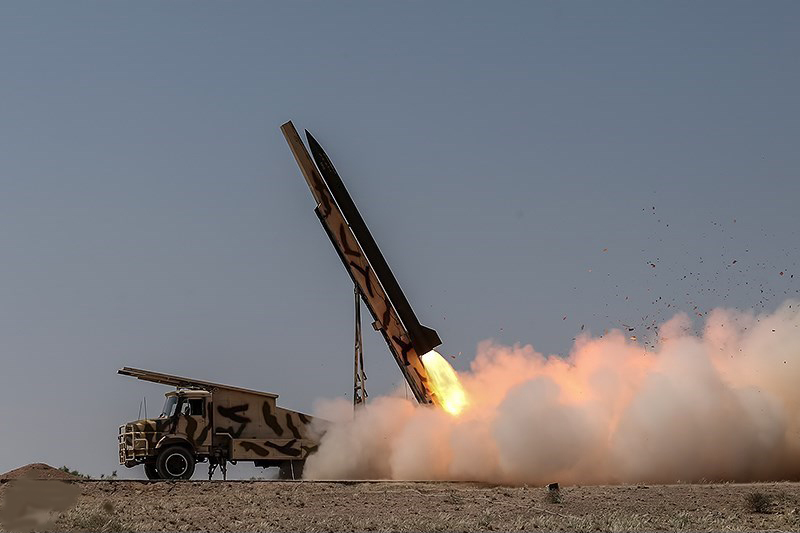 Naze'at are a series of Iranian-made artillery rocket with an estimated range of 100 km